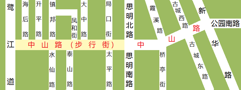 Map of Zhongshan Rd. (in Chinese)